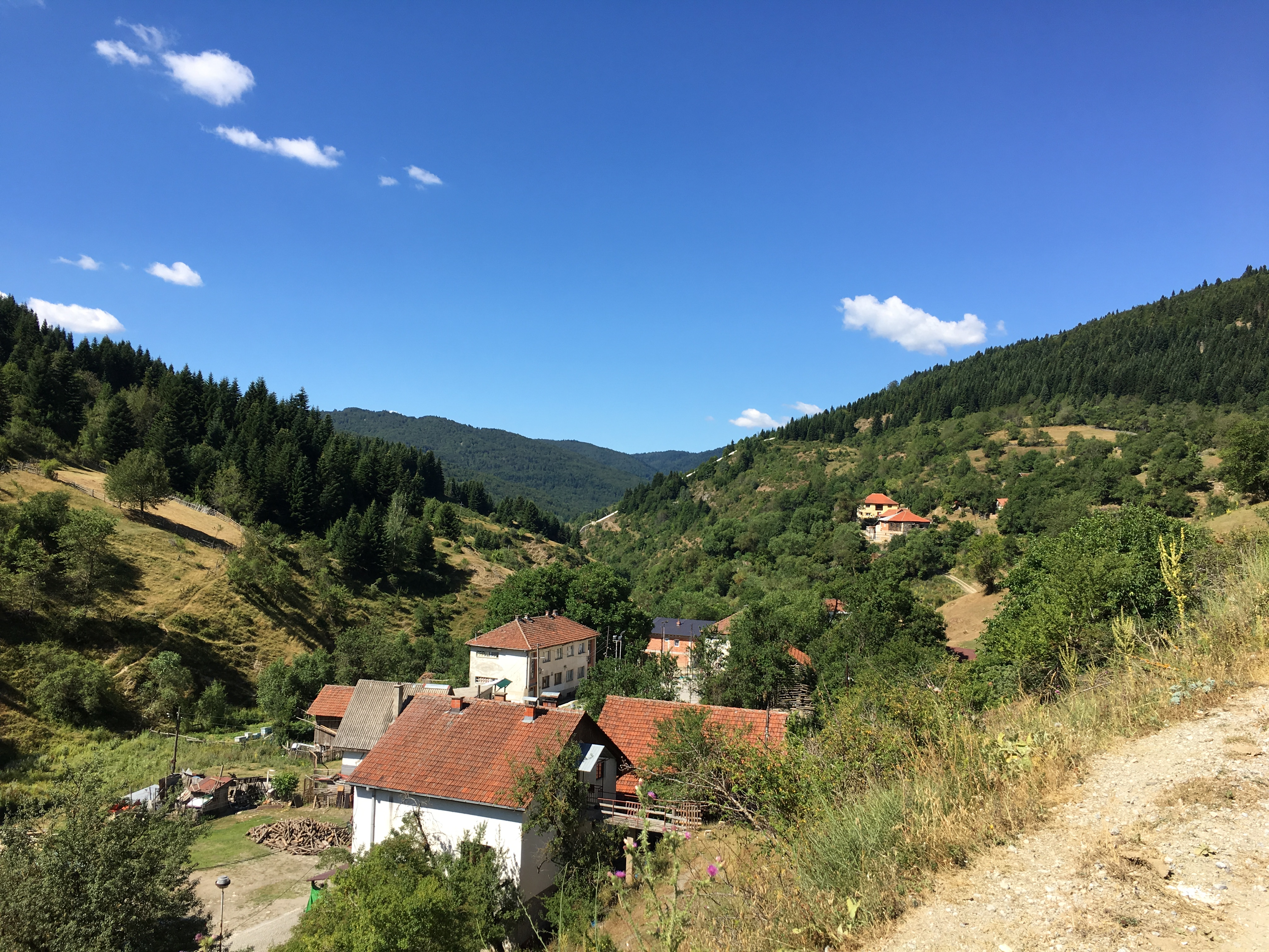 Houses in the village of Vrben